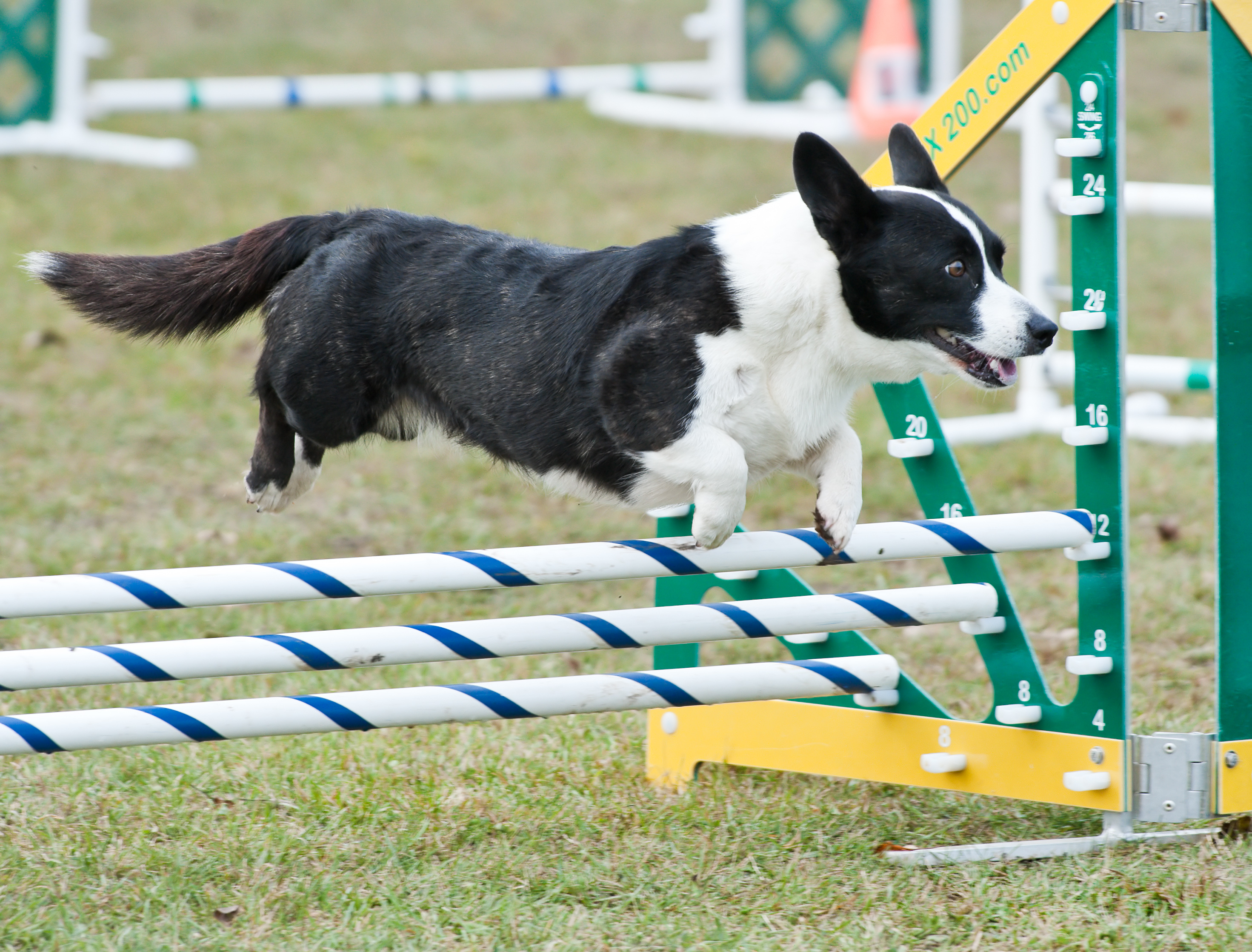 Welsh Corgi Cardigan